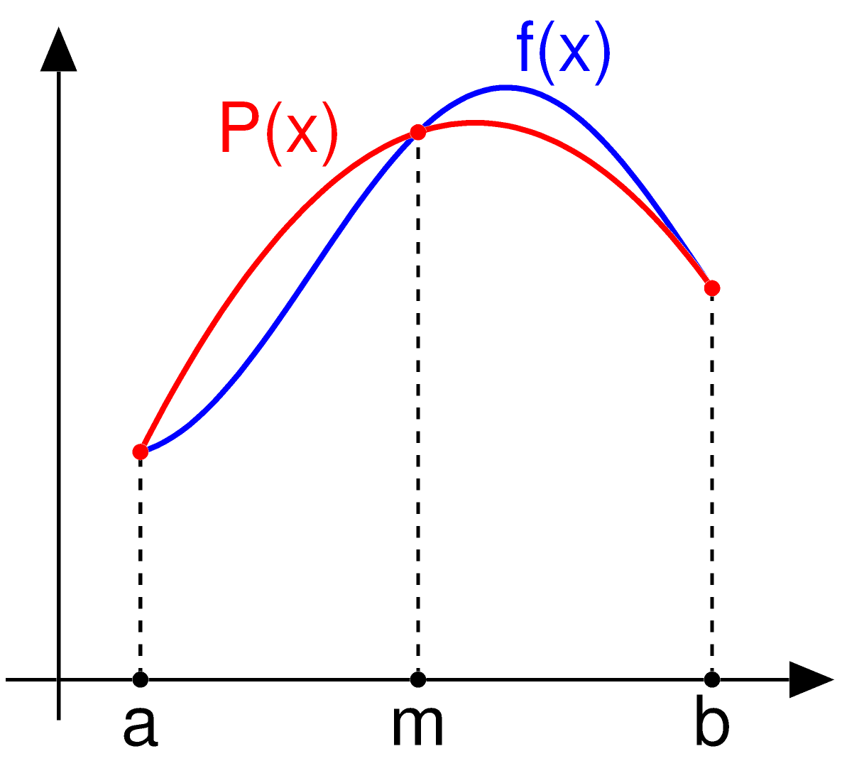 Simpson's method illustration. Done by myself (Oleg Alexandrov 23:17, 12 August 2007 (UTC)).